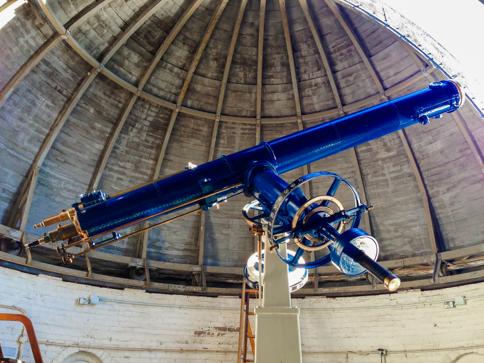 12" refractor (Brashear optics) on Warner & Swasey clock-drive Mount. Finished in 1922 at Cornell University's Fuertes Observatory in Ithaca, NY.